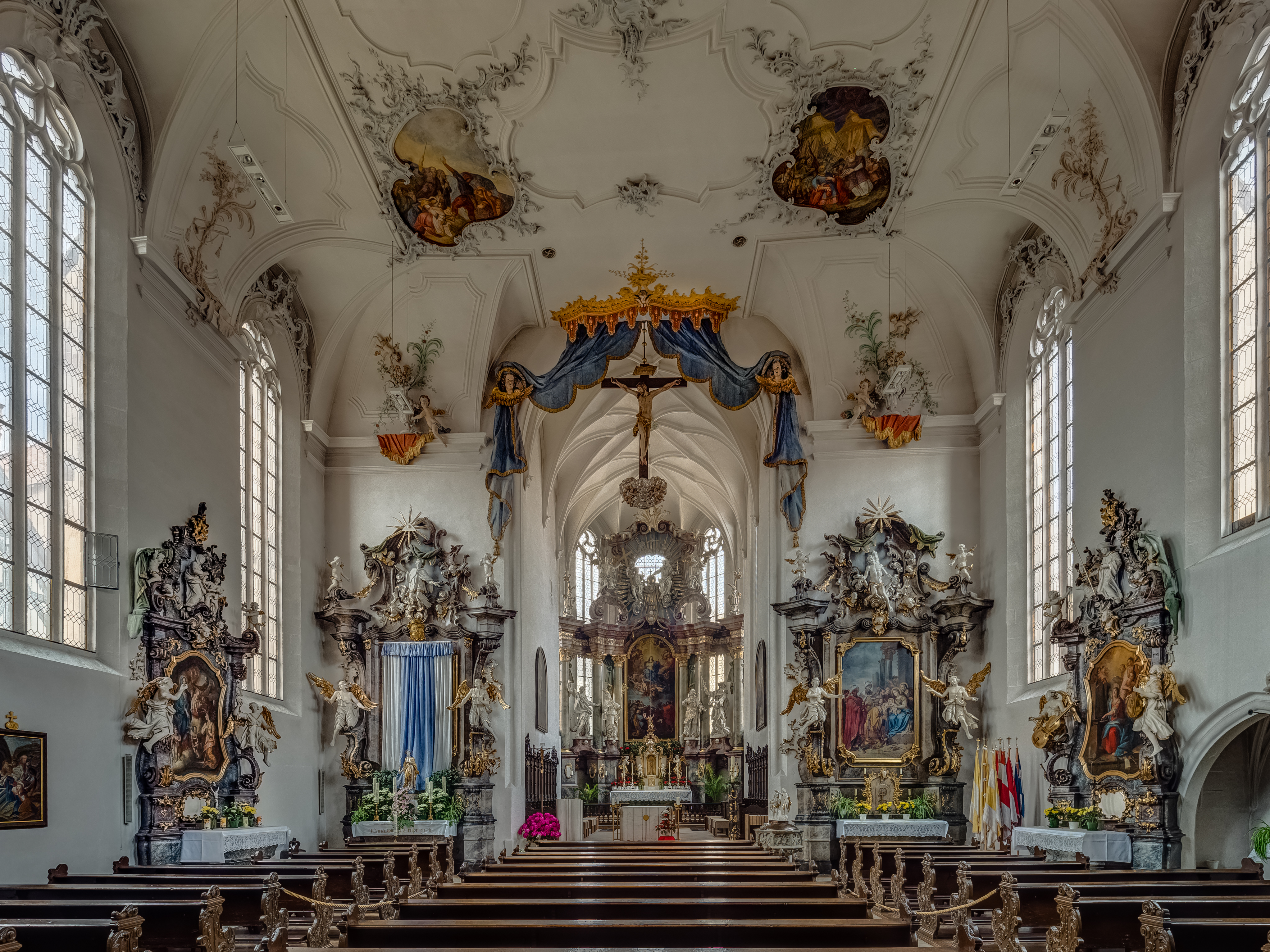 Interior of the parish church St. Bartholomäus and St. Georg in Volkach